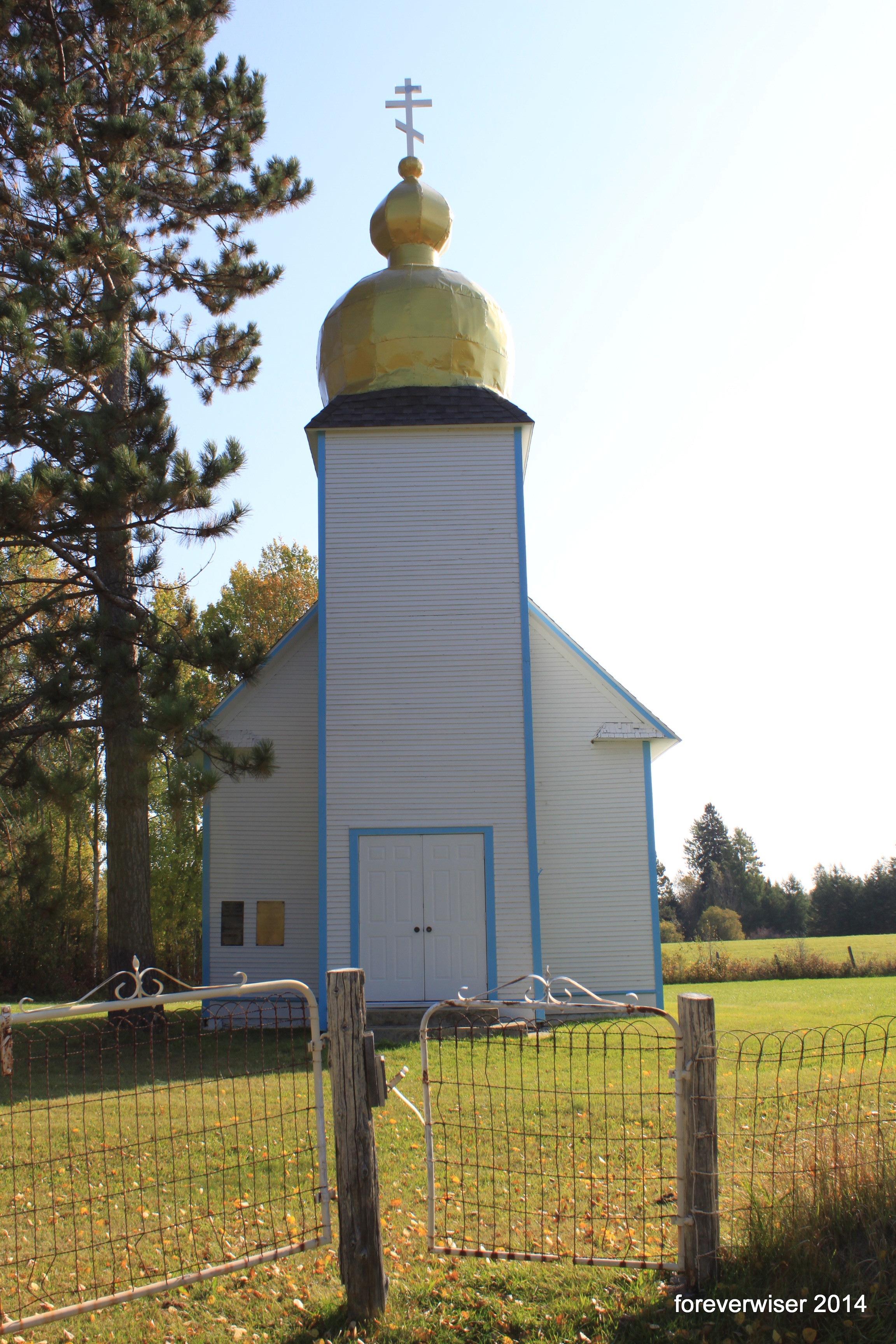 Sts. Peter and Paul Russian Orthodox Church, Minnesota Highway 65 Bramble vicinity